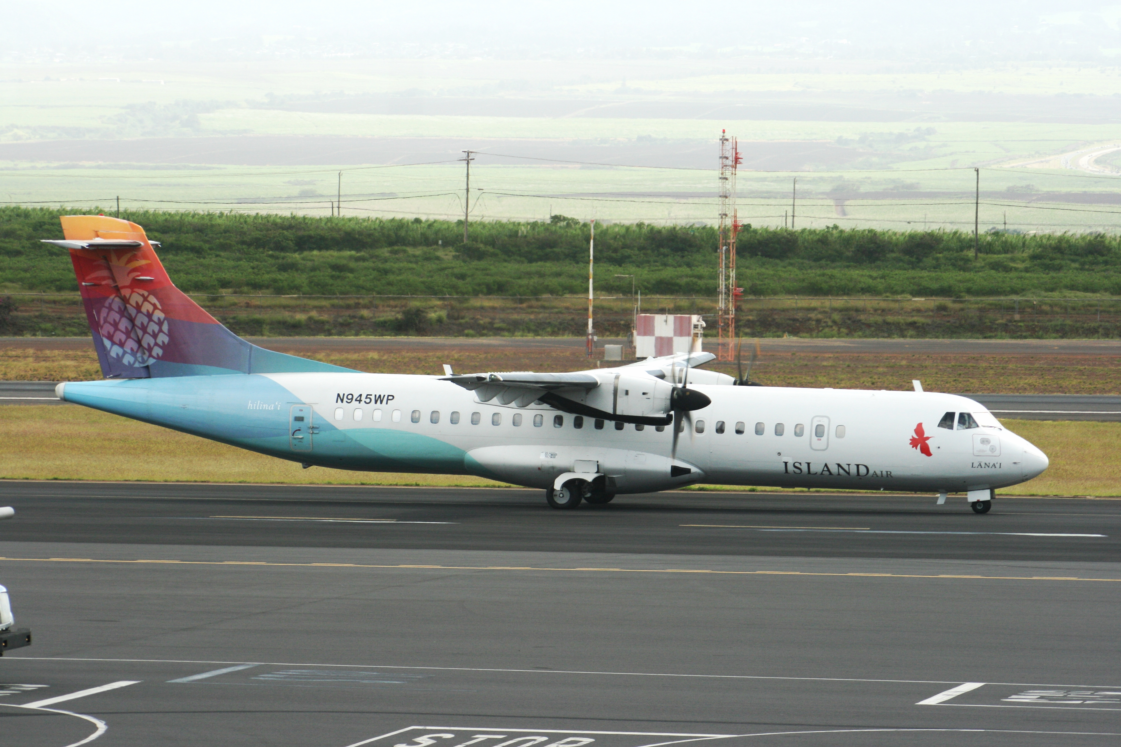 Island Air, ATR72 N945WP, Maui